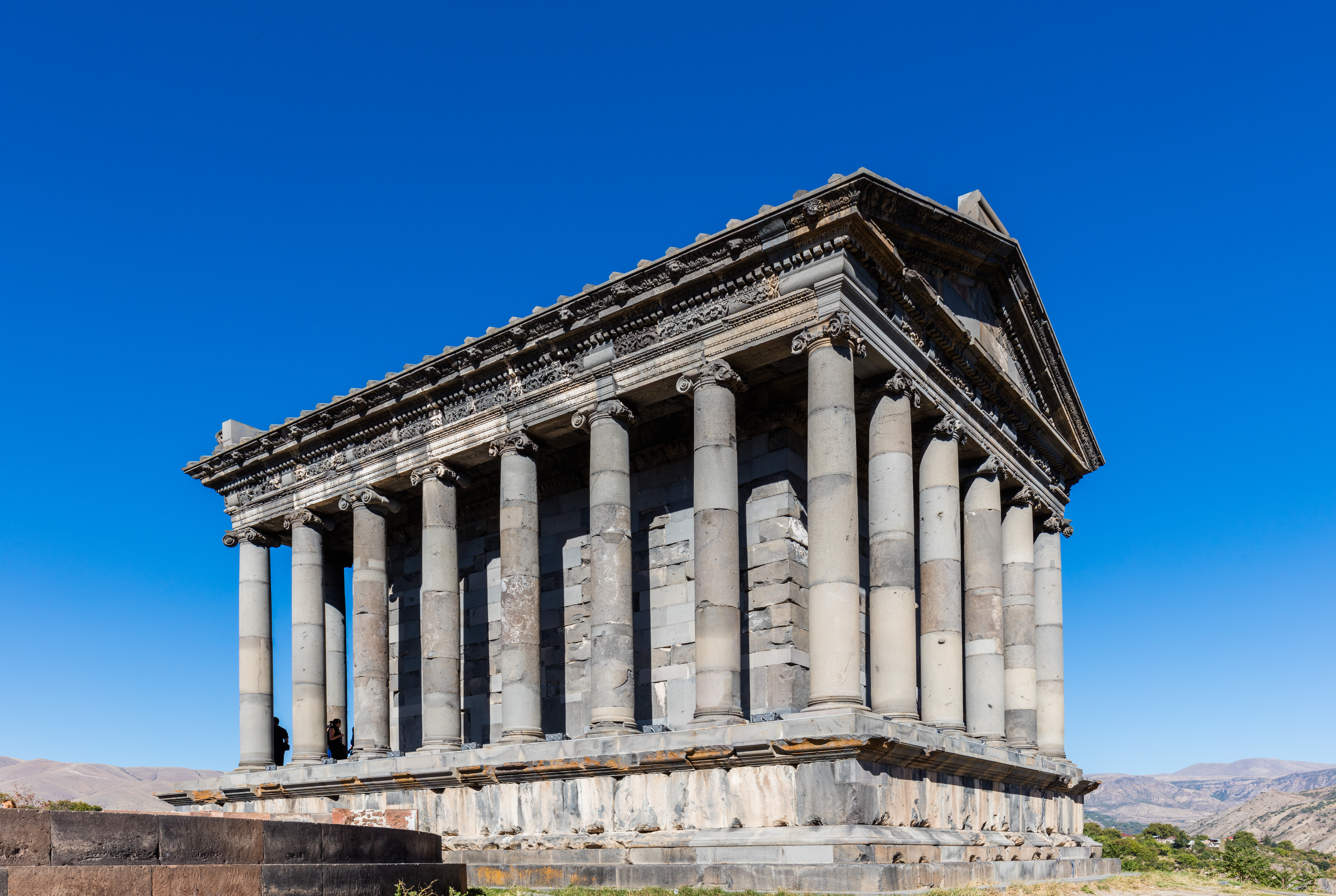 Garni Temple, Armenia